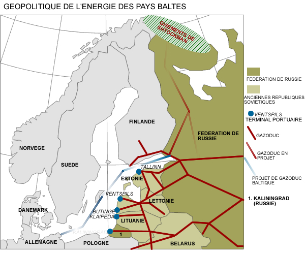 a map of the gaz network in the Baltic Sea region